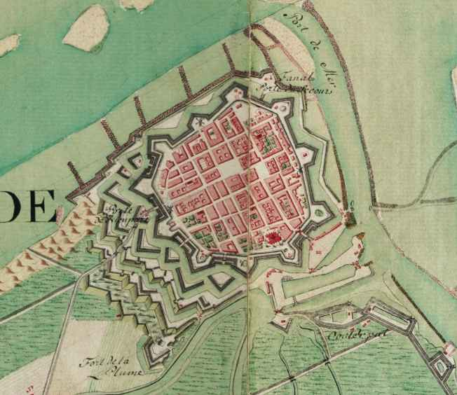 Ostend,_Belgium_;_ detail from Ferraris_Map